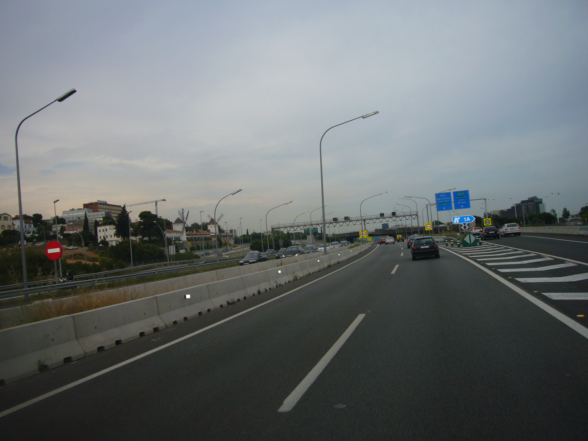 B-23 highway, at Esplugues de Llobregat near Barcelona